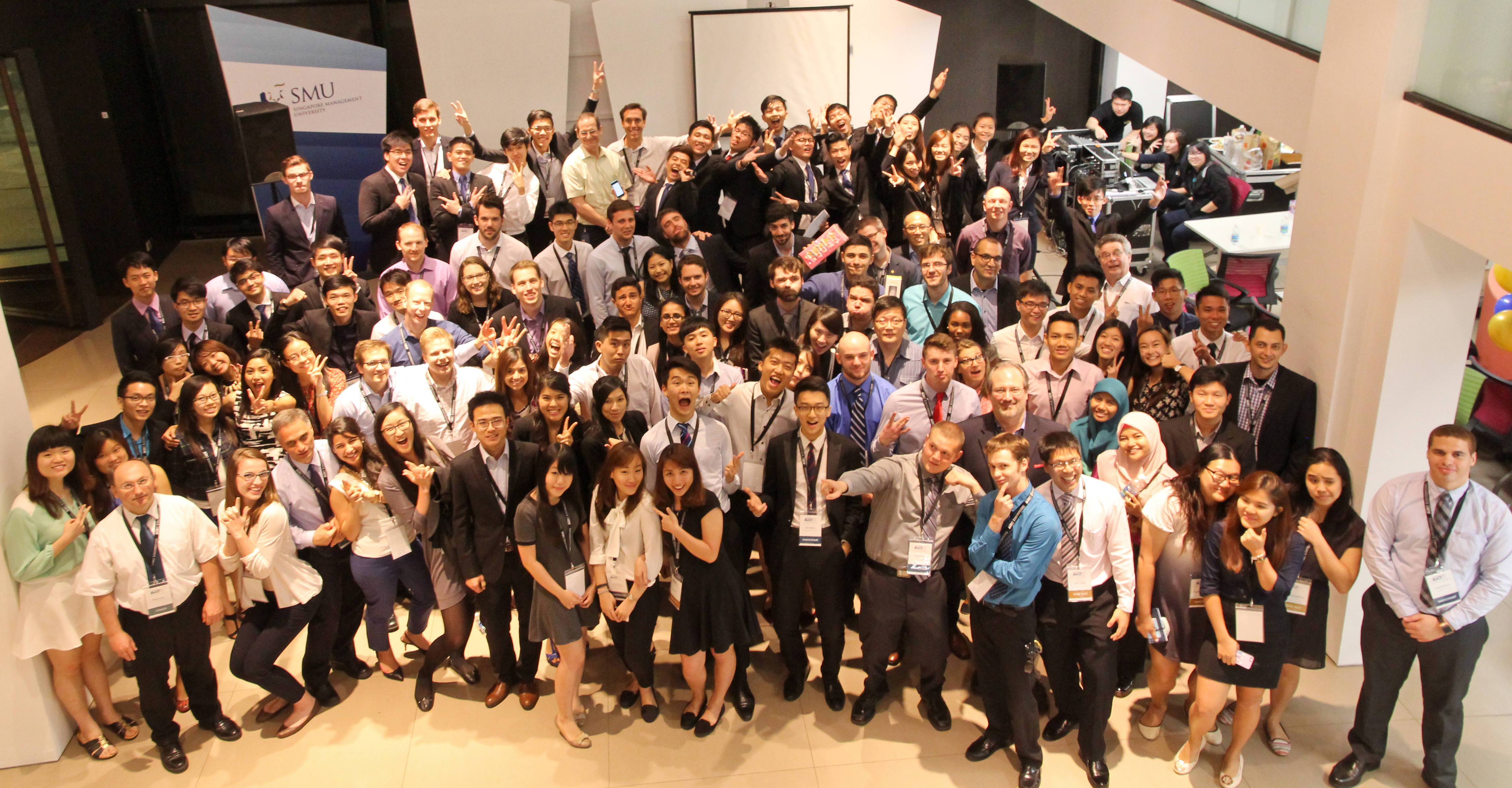 Apex group photo 2015